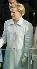 Mary Cheney at Dick Cheney's second inauguration